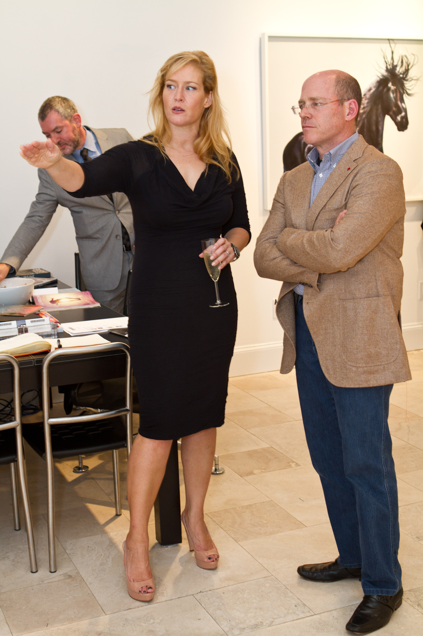 Jill Greenberg (left) at Hagedorn Foundation Gallery (Atlanta, GA)